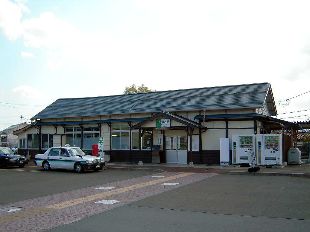 JR East Ishinomaki line Wakuya station (Wakuya,Miyagi,Japan)